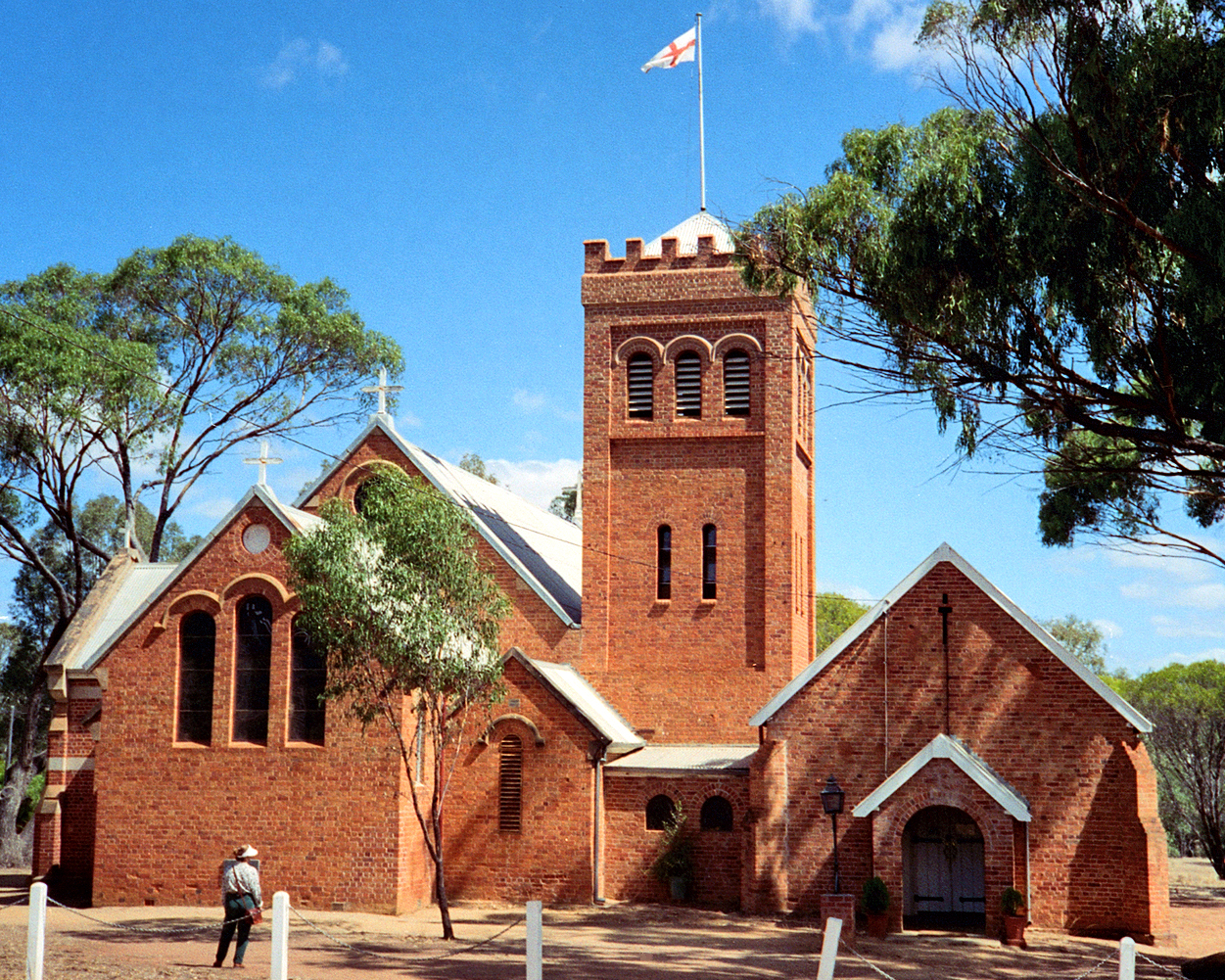 Taken 1994 by Jeff Crisdale.